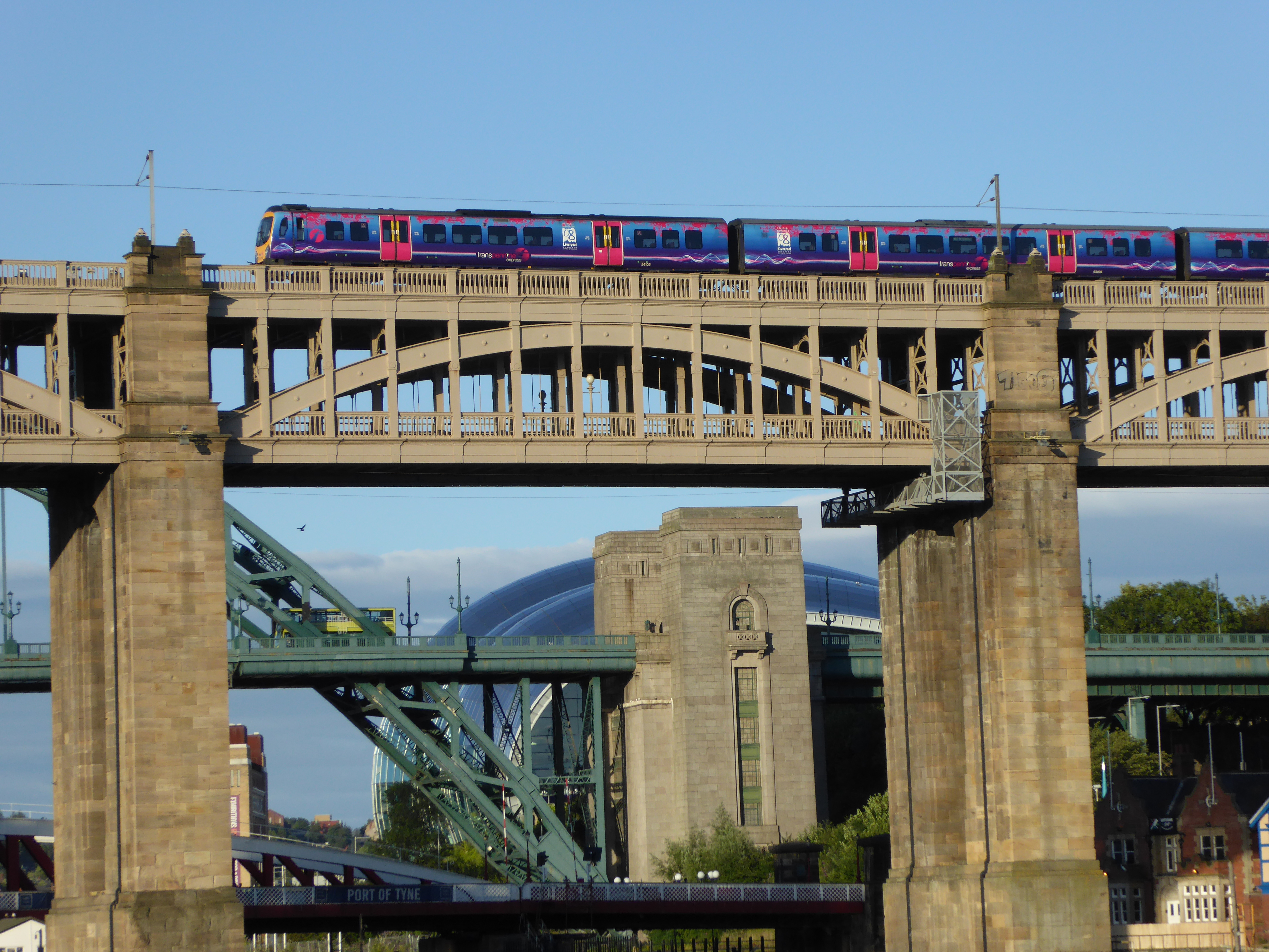 High Level Bridge, Newcastle upon Tyne, Tyne and Wear, England, August 2015